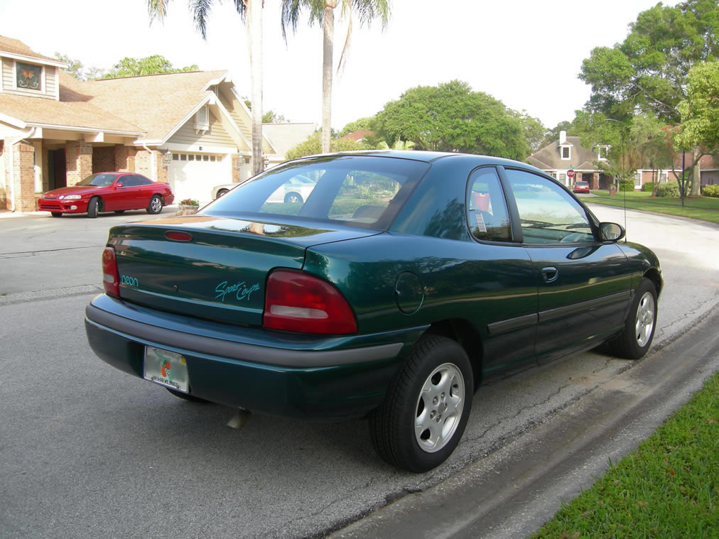 1995 Plymouth Neon Sport Coupe